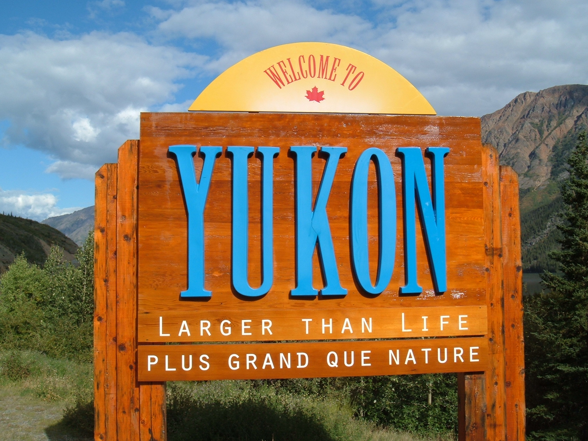 Written on the sign (top to bottom): "Welcome to Yukon. Larger than life." The words are written in English and French. The image was taken from Wikipedia.